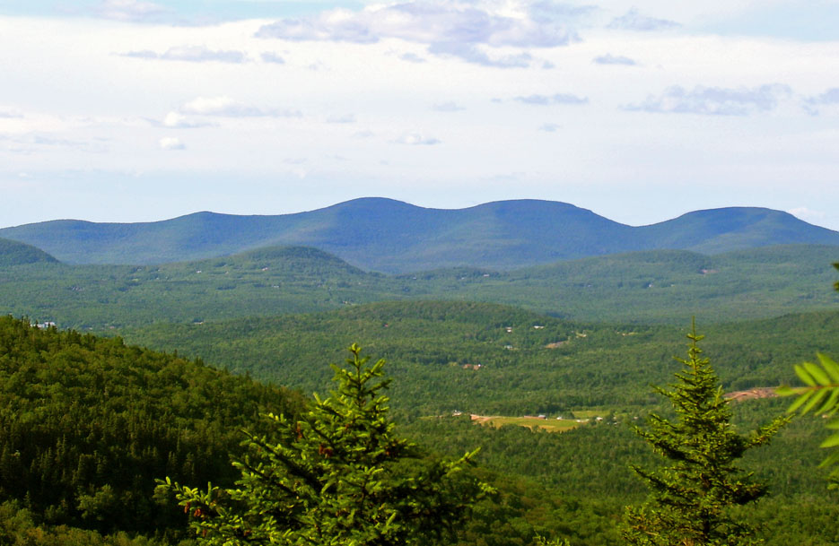 Photographed by Daniel Case 2006-08-12 from the western face of Twin Mountain.